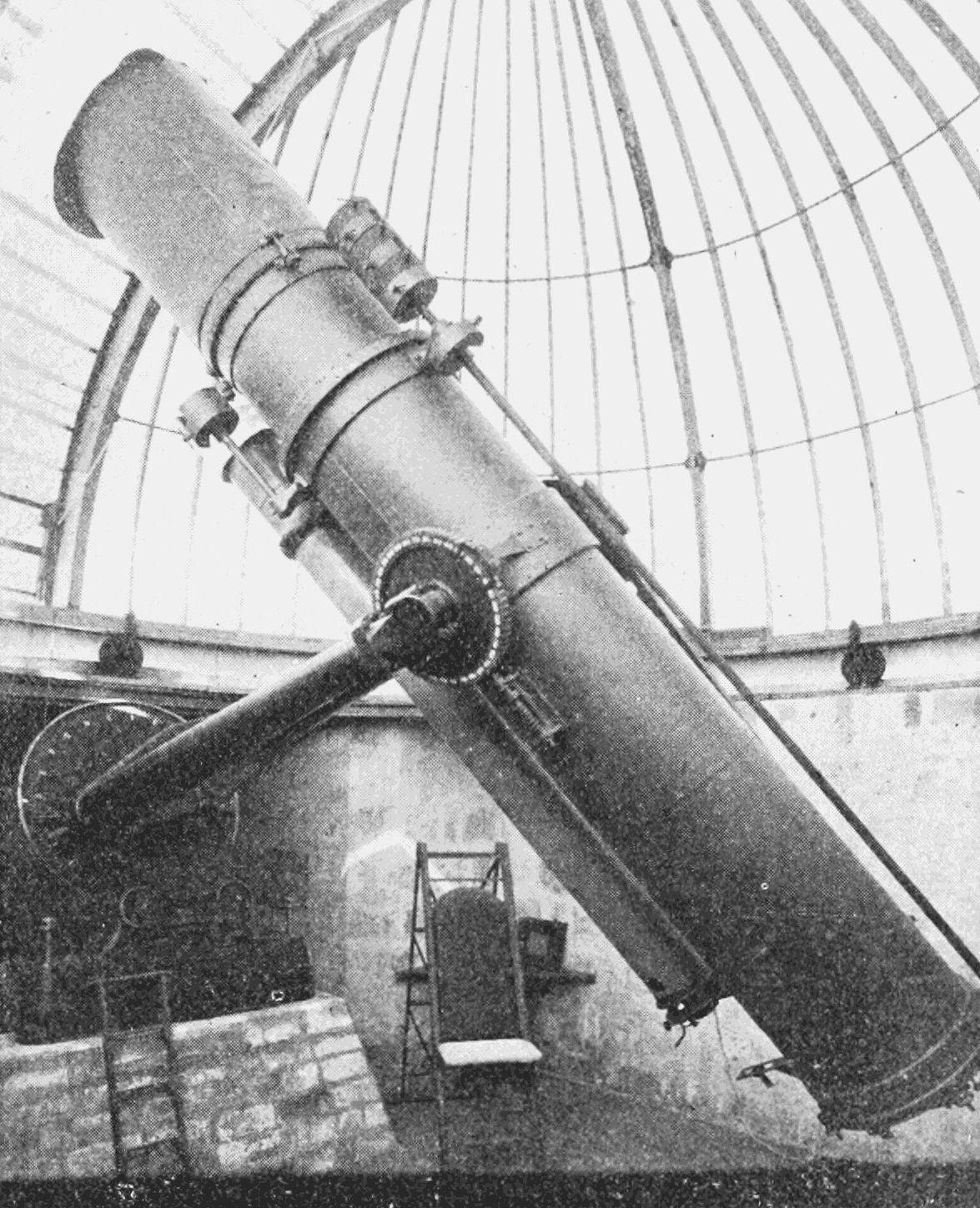 Bruce photographic telescope